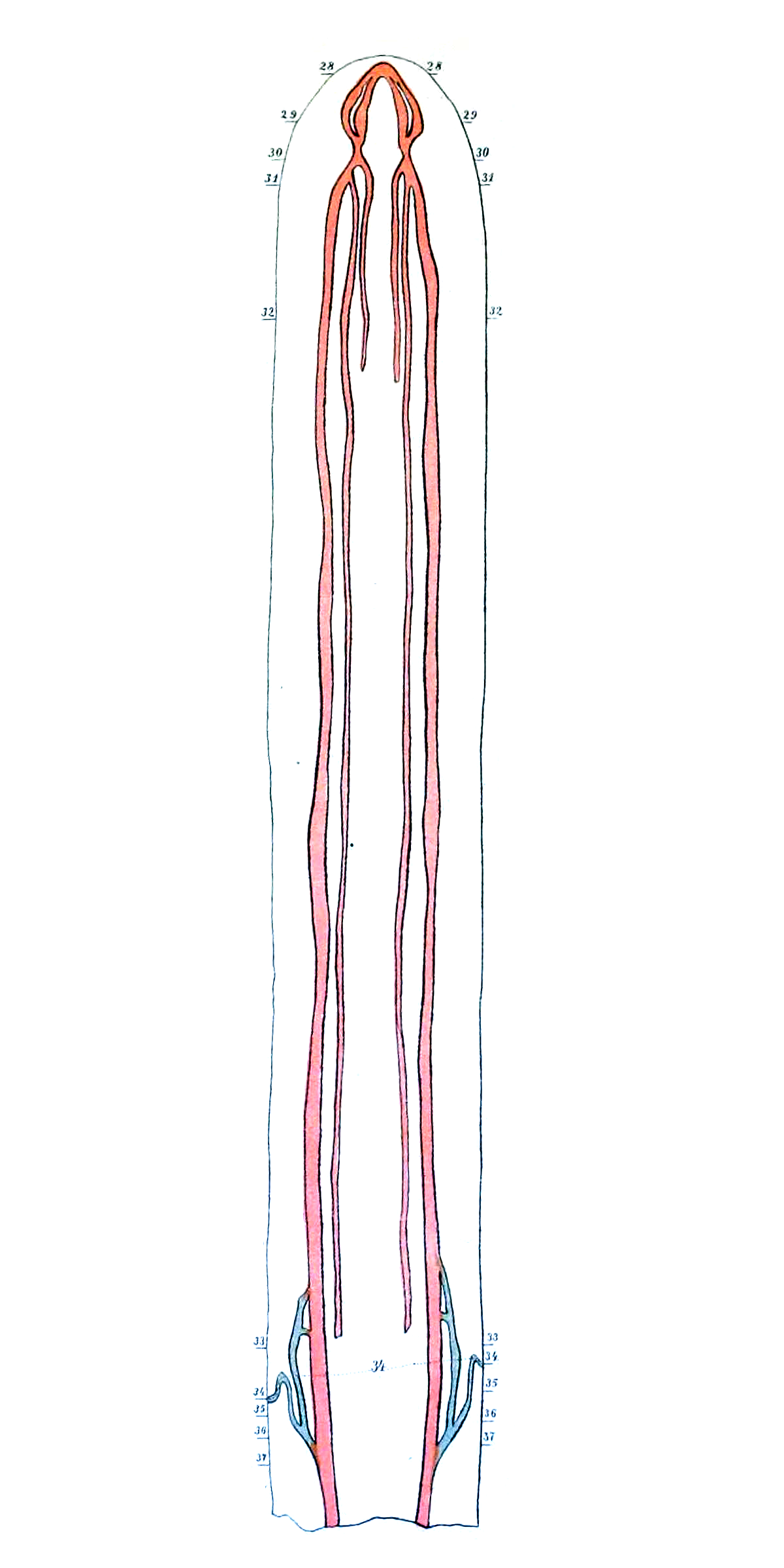 Schematic drawing of circulatory system of Carinoma armandi (Nemerea: Paleonemertea: Carinomidae).